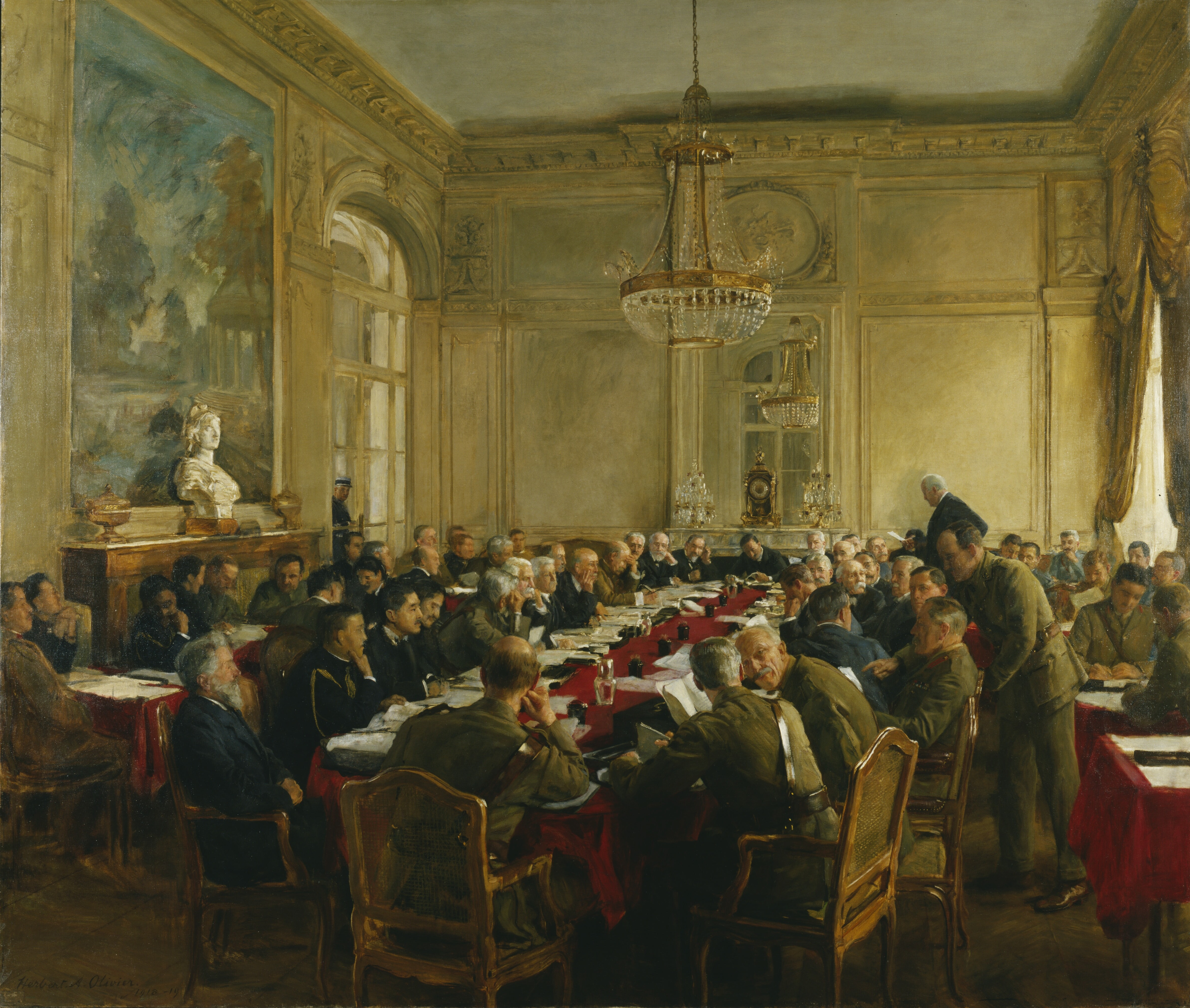 The Terms of the Armistice, 3rd and 4th November, 1918 image: A view inside a large ornately decorated room in the palace at Versailles, with senior military personnel and politicians sitting around a large rectangular table. Other military personnel sit at smaller tables that circle the large table. A large chandelier hangs from the ceiling and there is a painting on the wall to the left.